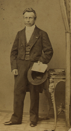 Rasmus Nielsen, 1809-1884, was a Danish philosopher and professor, influenced by Søren Kierkegaard. "[they] ... went walking every Thursday evening towards the end of the 1840s. ..."